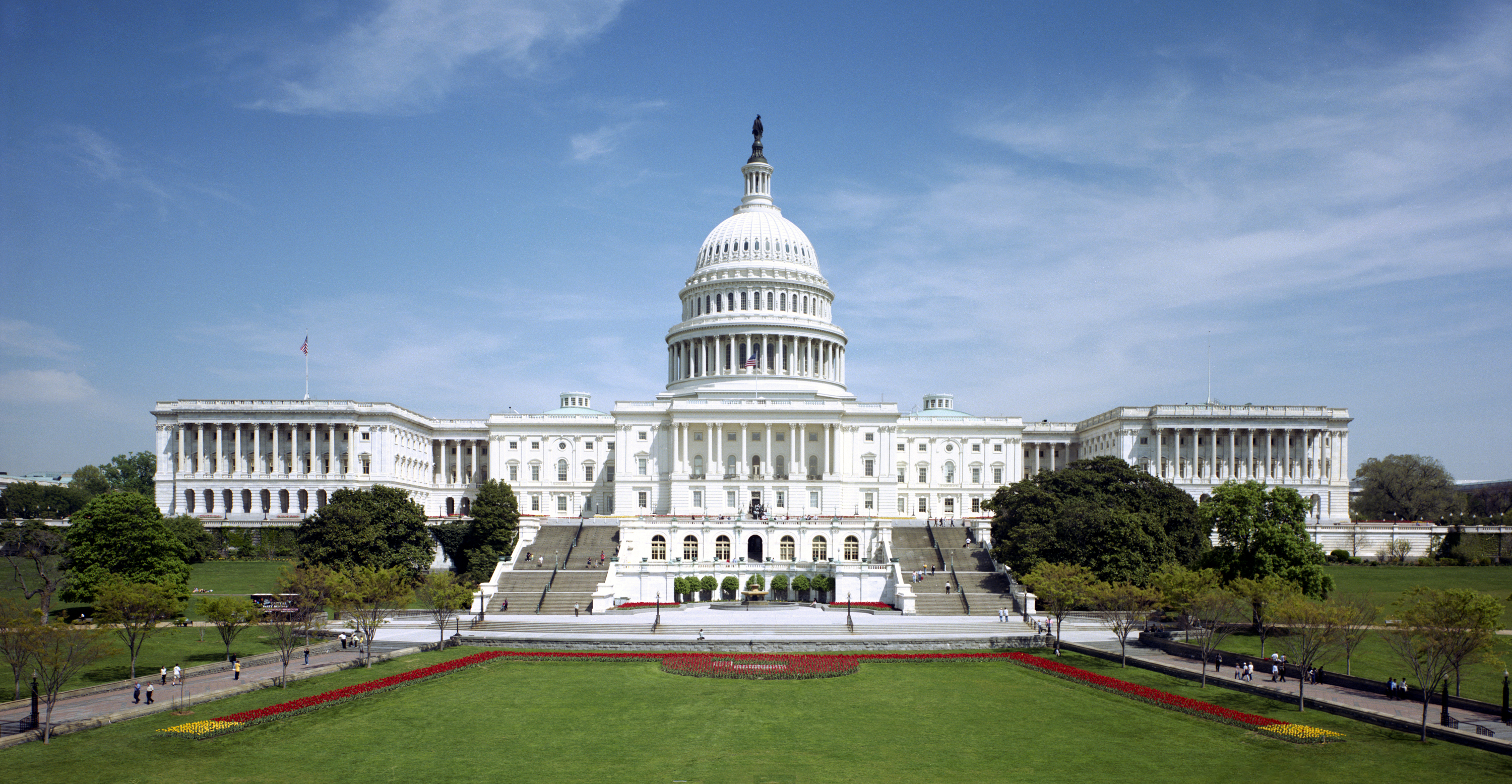 The western front of the United States Capitol. The Neoclassical style building is in Washington, D.C., on Capitol Hill, at the east end of the National Mall. The Capitol was designated a National Historic Landmark in 1960.